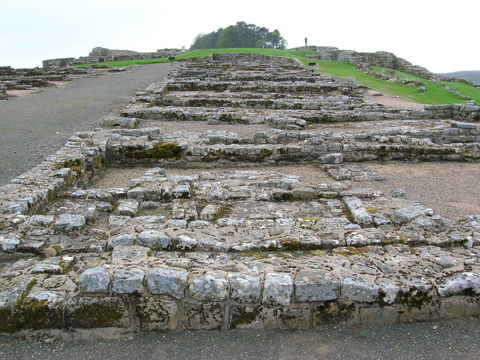 Northern series of troop barracks in the praetentura of the Housesteads Fort